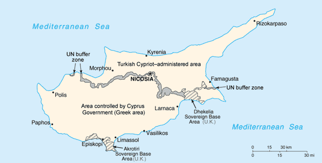 Cyprus map from CIA World Factbook, converted from original GIF format